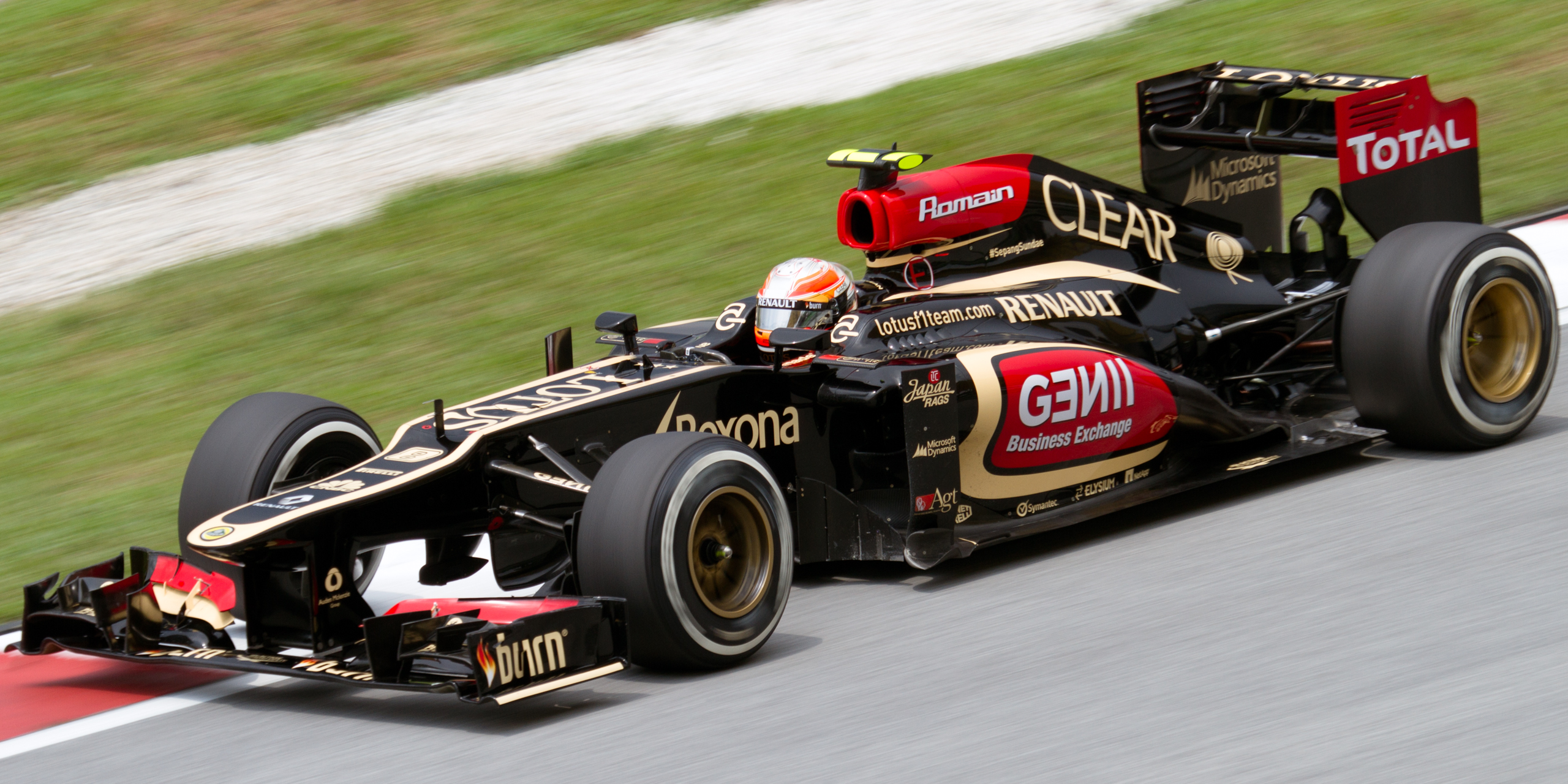 Formula One 2013 Rd.2 Malaysian GP: Romain Grosjean (Lotus) during the second practice session on Friday.